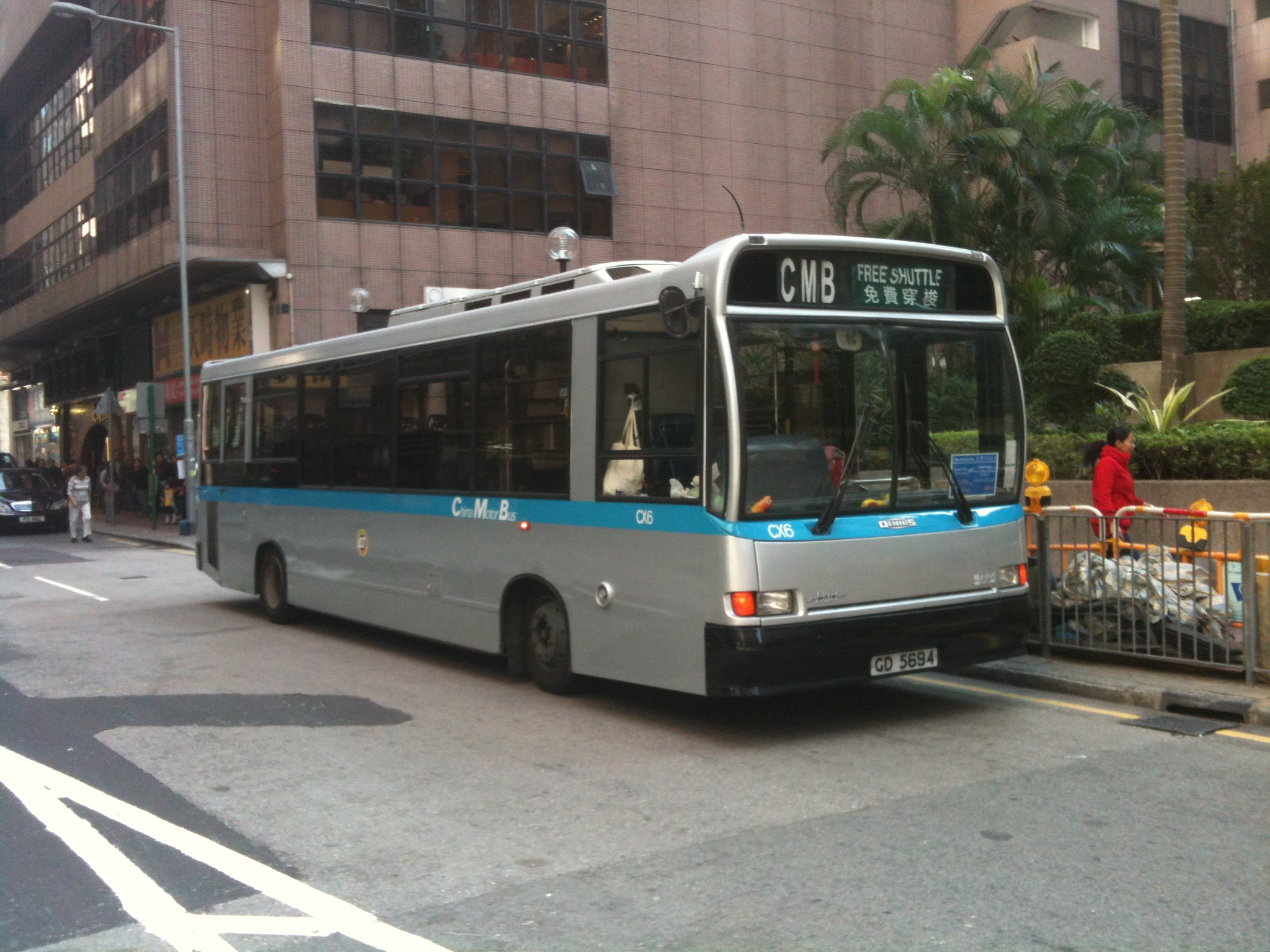 This photo is taken in North Point.